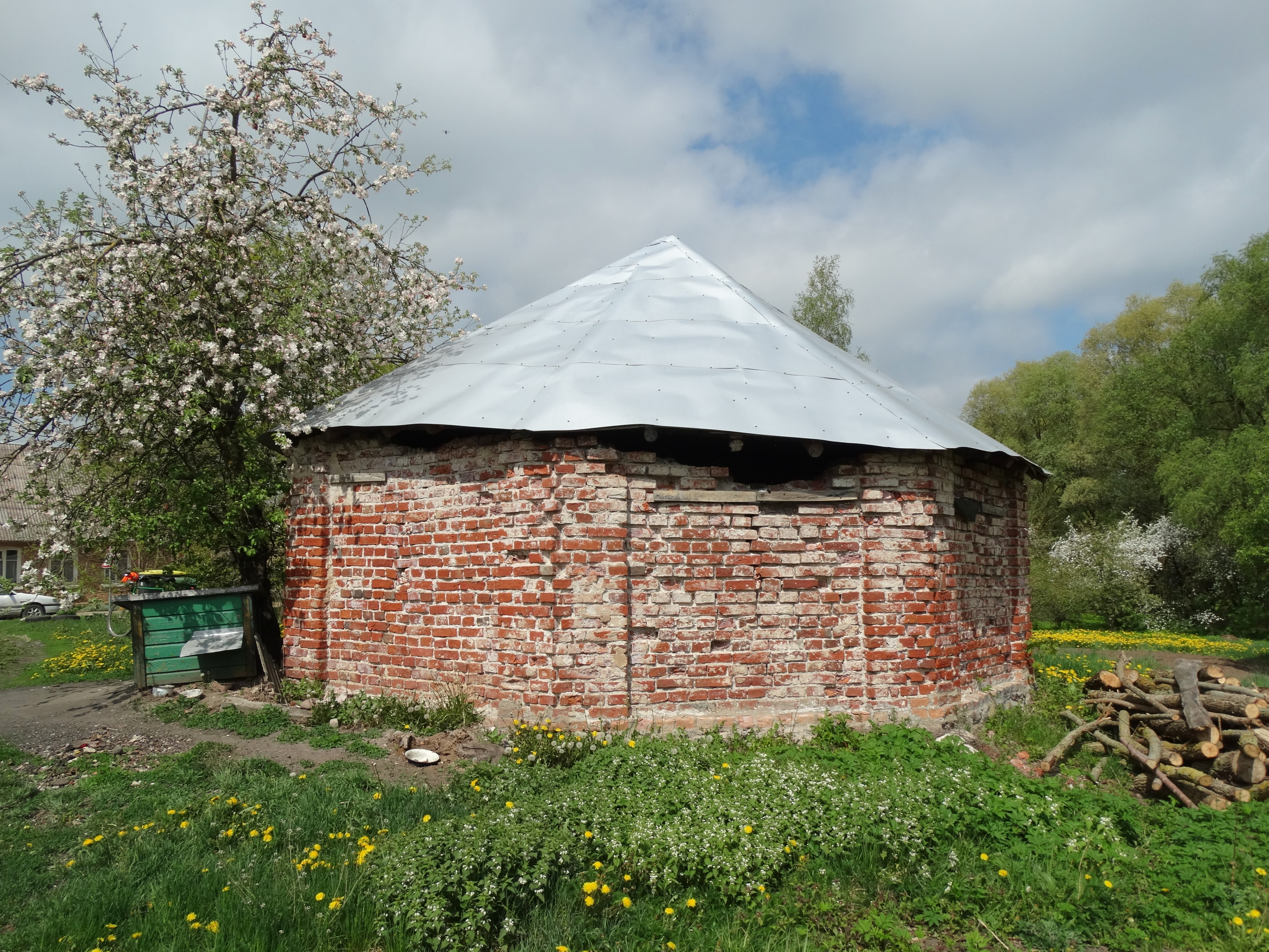 Former Swedish Chapel, Žeimelis, Lithuania